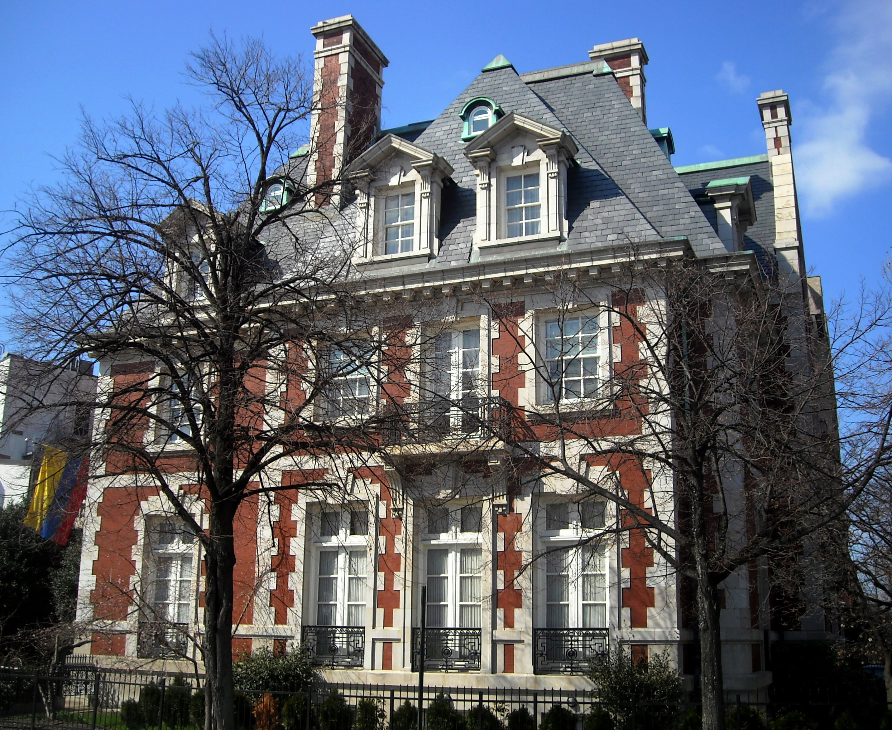 The Thomas T. Gaff House, residence of the Colombian ambassador to the United States, located at 1520 20th Street, NW in the Dupont Circle neighborhood of Washington, D.C.